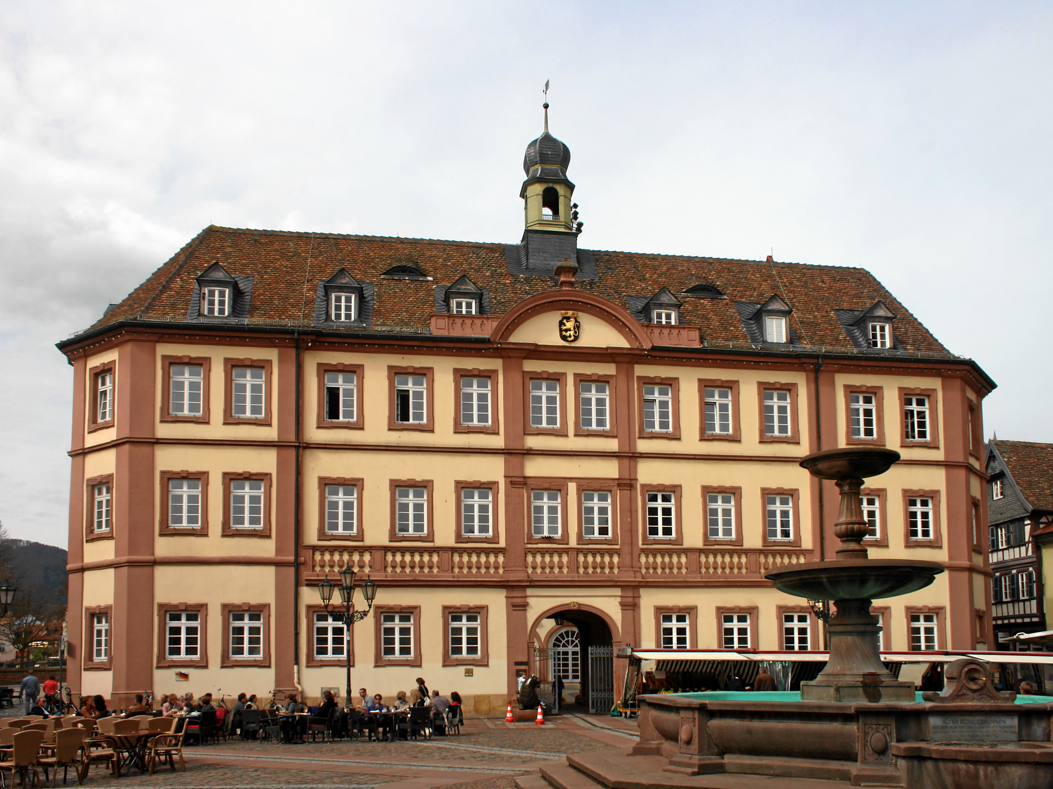 Neustadt an der Weinstraße, Germany. Former Jesuit College, nowadays townhall. Built in 1729-43.